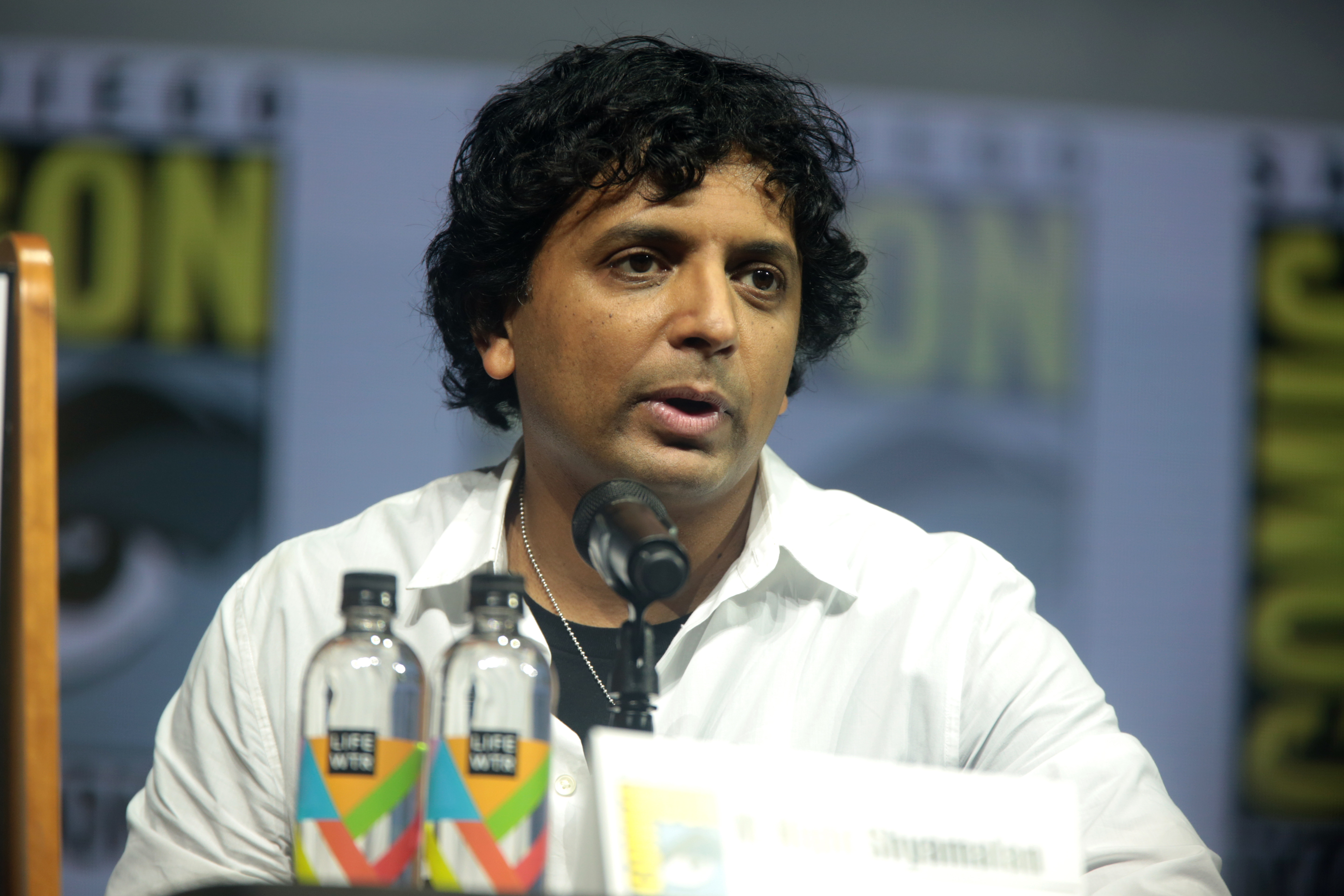 M. Night Shyamalan speaking at the 2018 San Diego Comic Con International, for "Glass", at the San Diego Convention Center in San Diego, California.